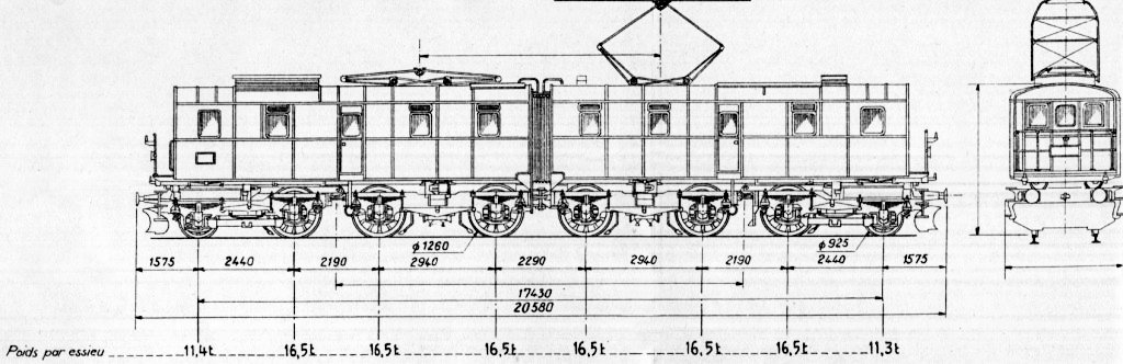 Drawing of electric locomotive PLM 161 AE, 1928, future SNCF 1ABBA1 3500